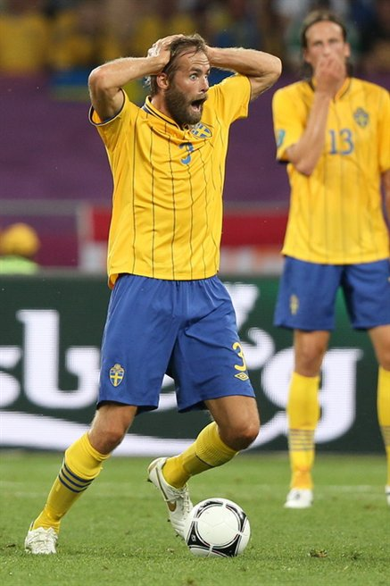 Olof Mellberg at the Euro 2012 match against France